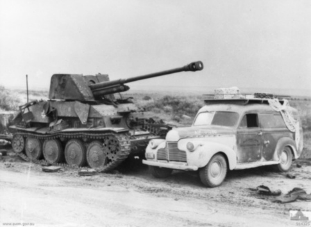 An abandoned German Marder III tank in North Africa.Original caption: "Improvised mounting of a Russian M1936 76.2 mm anti tank gun on a Czech T.38 tank hull (the whole is known as an SdKfz 139 Marder III). The crew of this powerful German anti tank gun were protected by armour in front only; the top and back were open. The gun fired a shell approximately 9 lbs in weight with a muzzle velocity of 5000 feet a second. On the right is a Chevrolet Panel van operated by the Australian photographic unit."